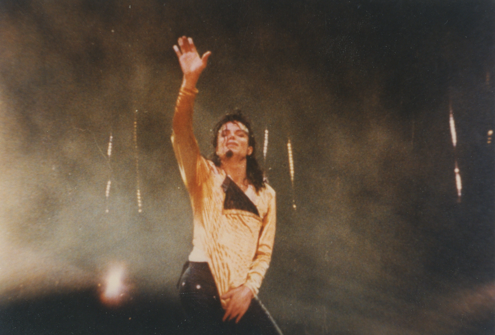 Michael Jackson live "Dangerous Tour" in Monza (Italy) 06/07/1992